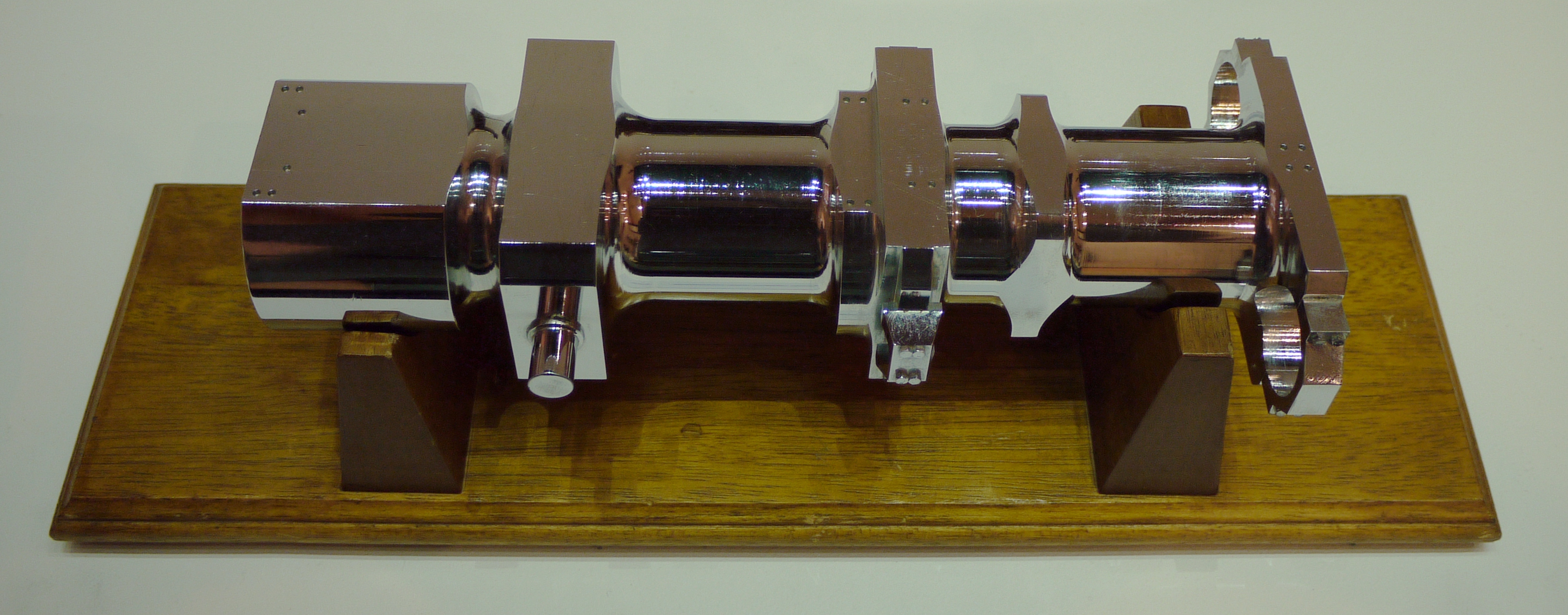 Photo of a model of the the breech of the Project Babylon Iraqi supergun